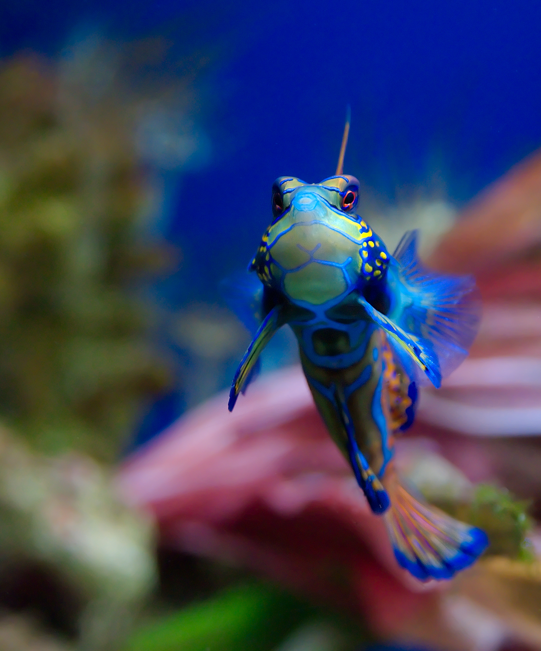 Synchiropus splendidus - Mandarinfish in aquarium-Muséum Liège (Belgium)